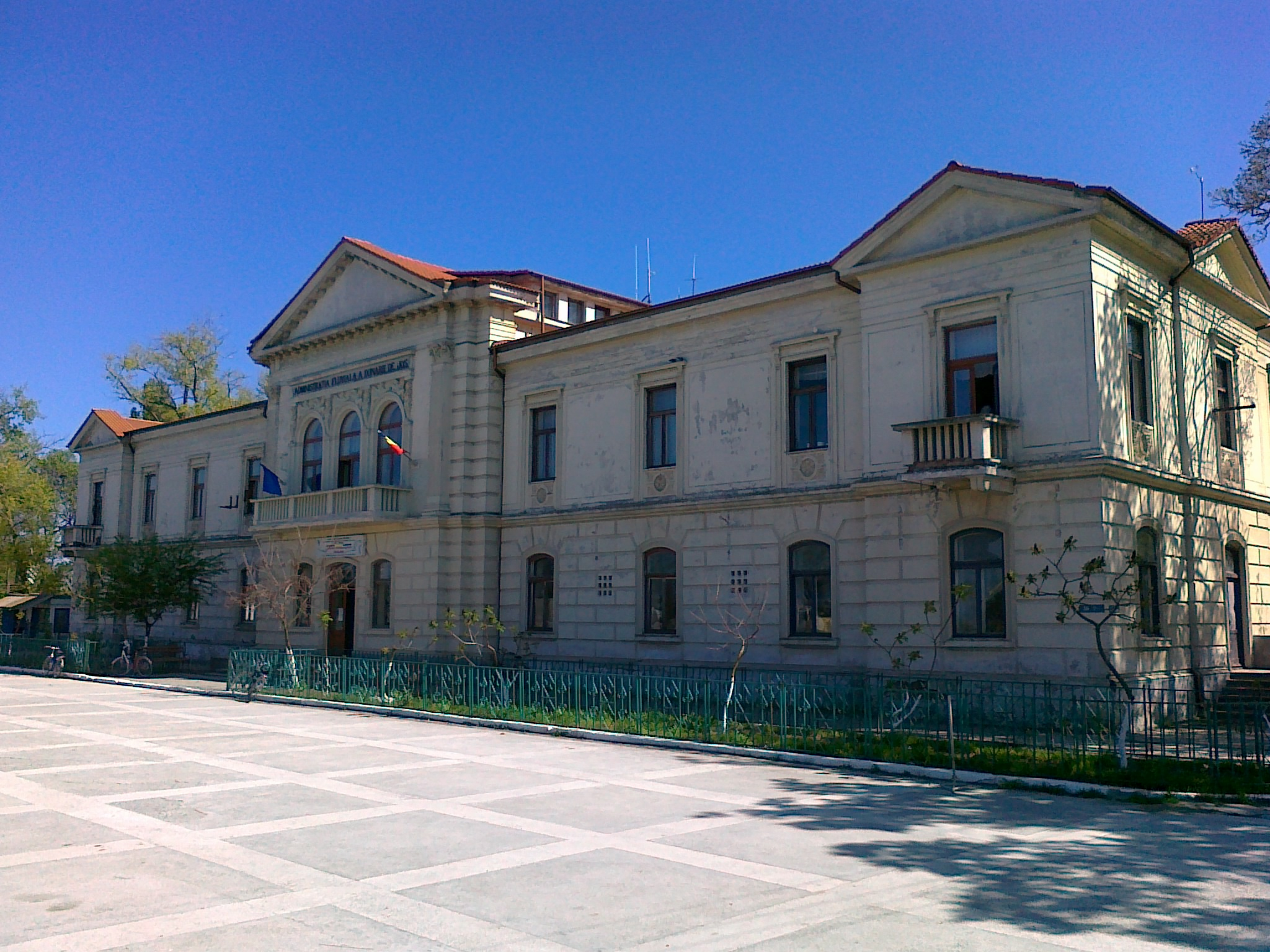 The Palace of the Danube Commission in Sulina, Tulcea County, Romania from 1868 to 1921.